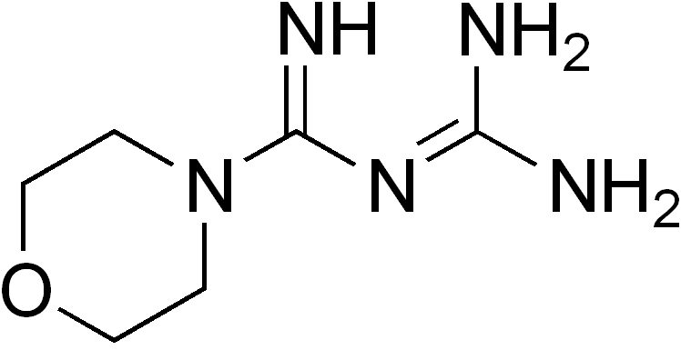 chemical structure of moroxydine